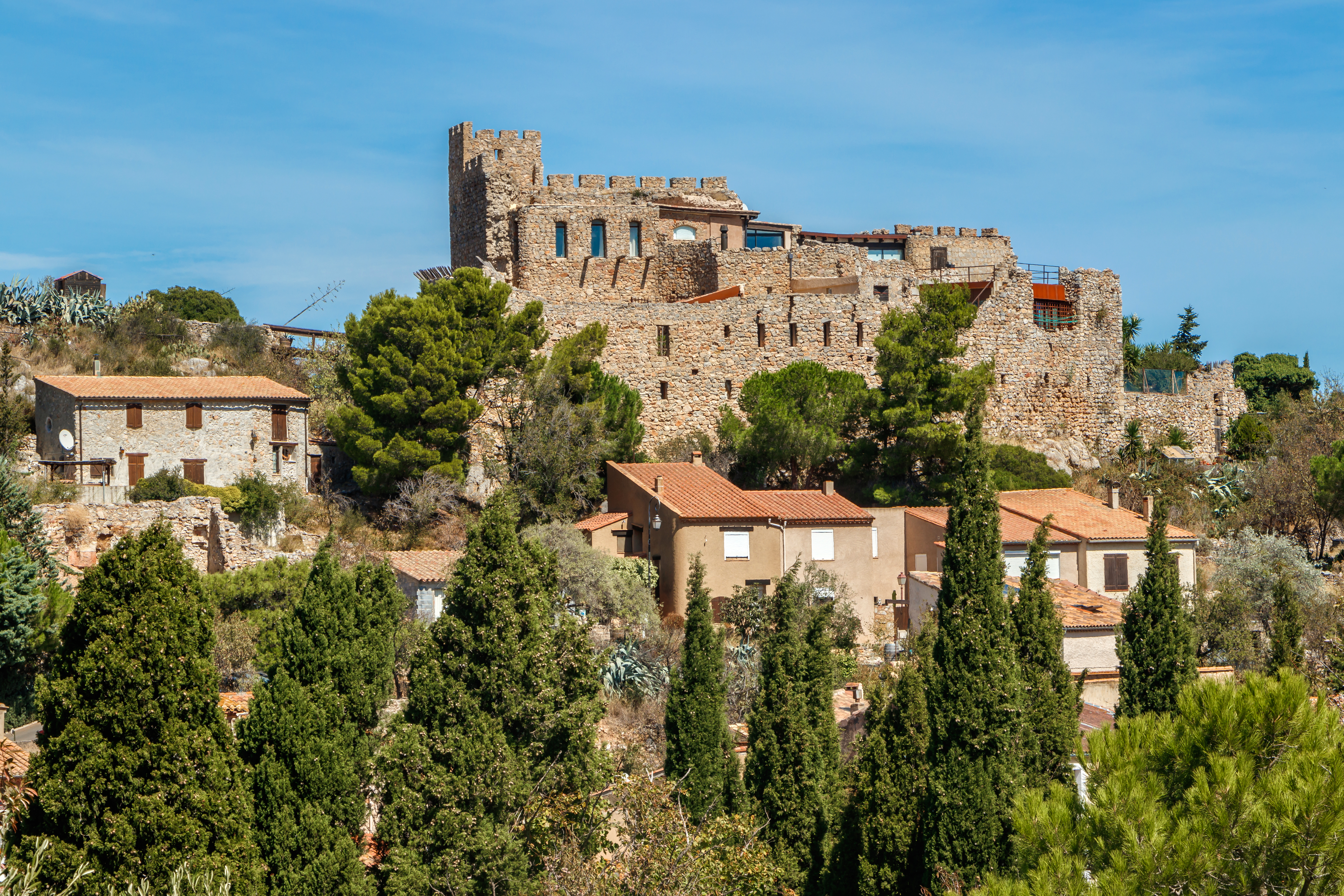 Château de Fitou (Castle of Fitou), Fitou, Département Aude, France